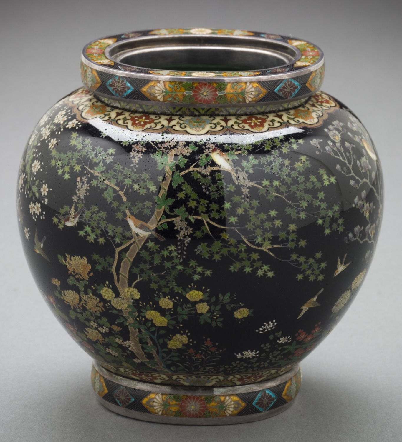 Japan, 19th century Tools and Equipment; burners Cloisonné with silver wire and silver mounts, silver body Gift of Mr. and Mrs. Eugene Tosk (M.91.251.2) Japanese Art